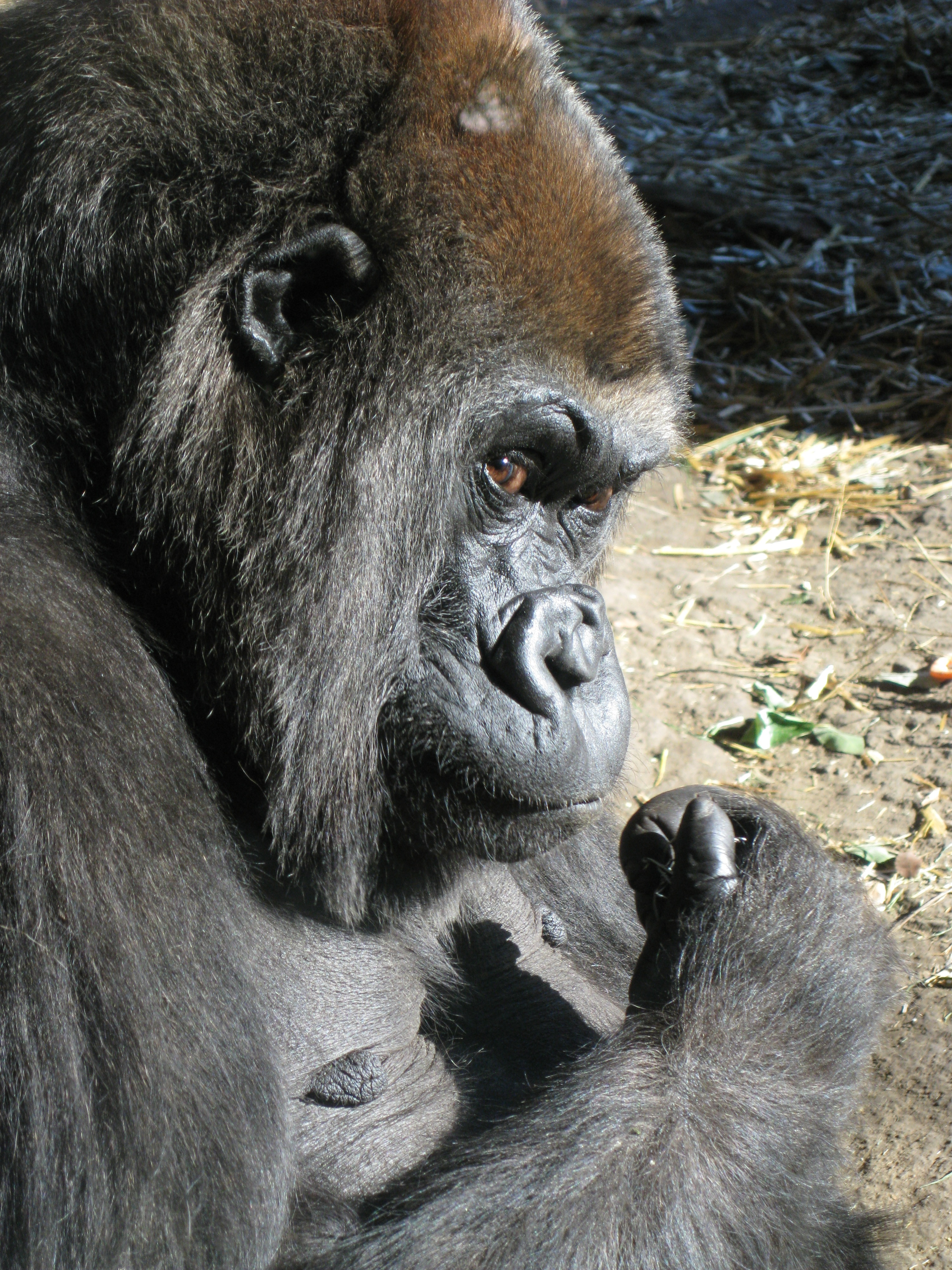 Western Lowland Gorilla at Ueno Zoo, Tokyo, Japan